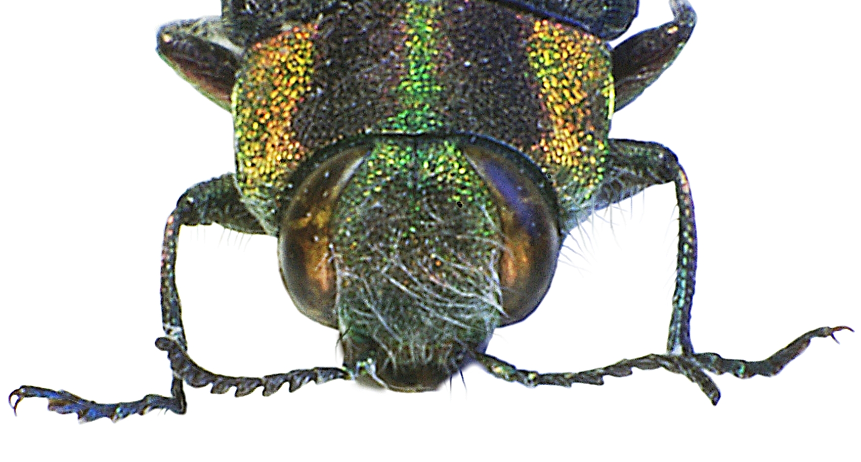 Front of Anthaxia manca from Eastern Hungary